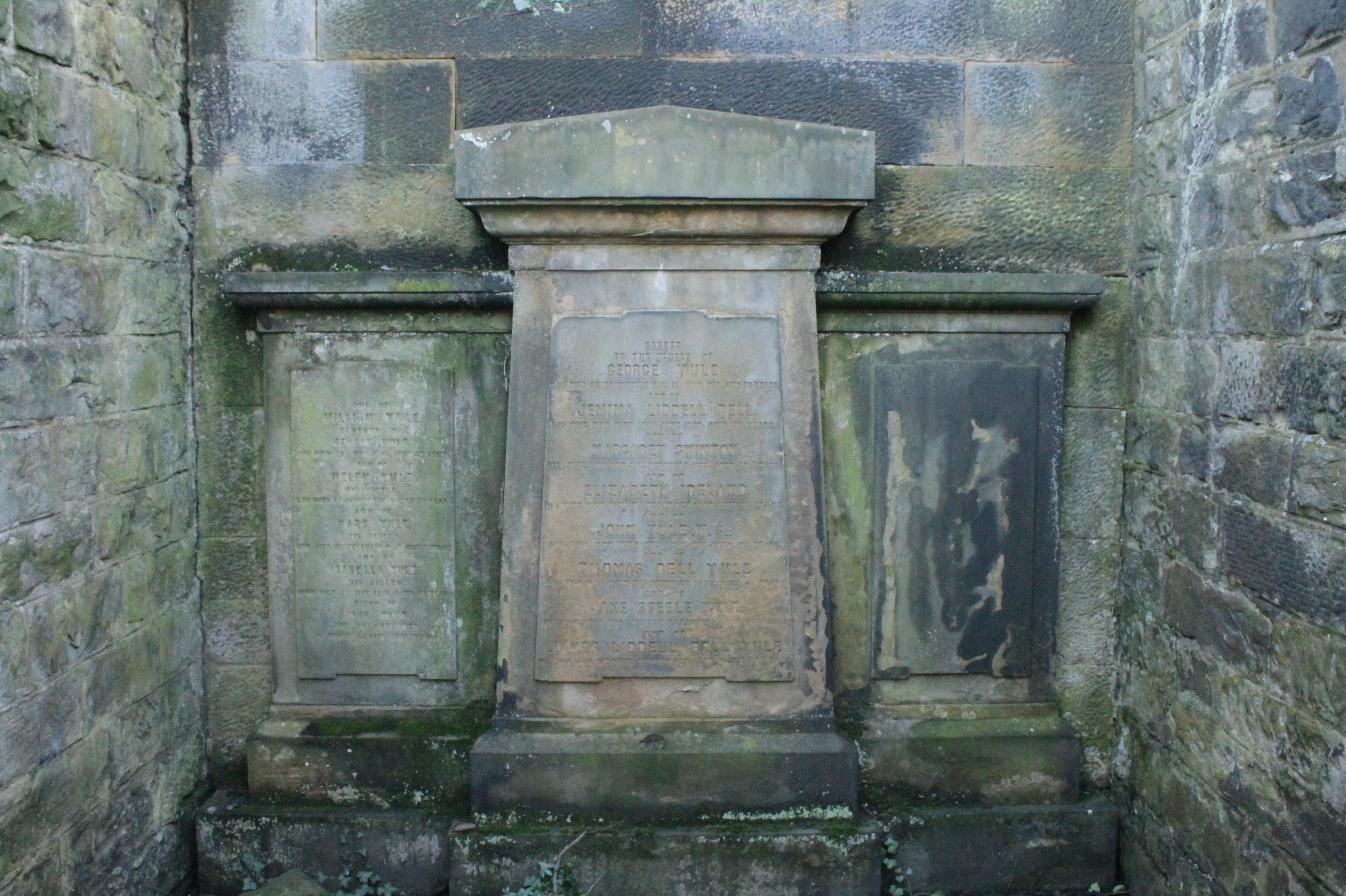 The Yule family grave in New Calton Cemetery in central Edinburgh